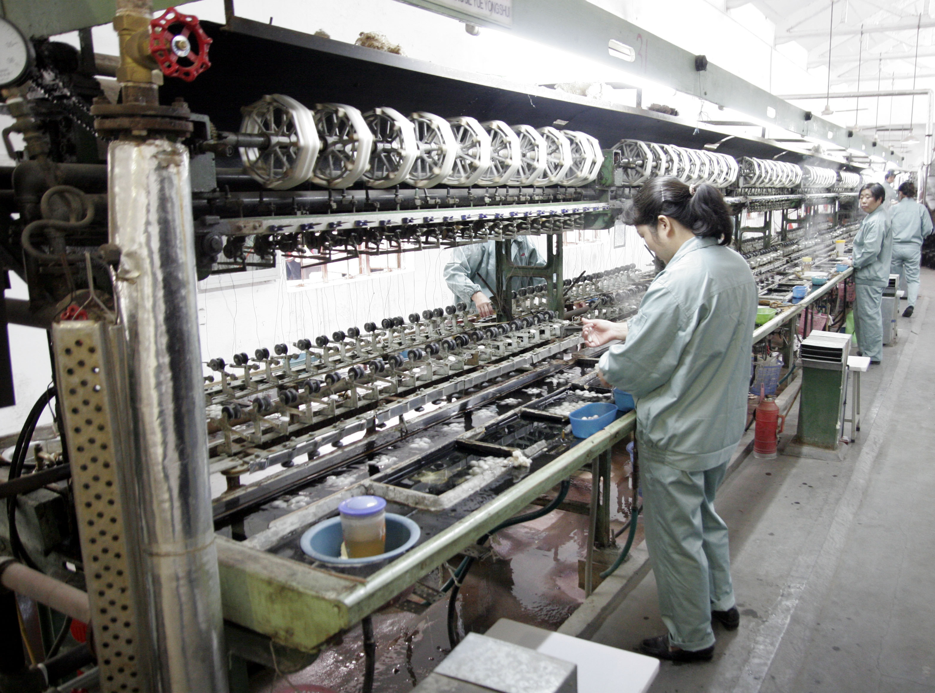 Silk production in the Suzhou No.1 Silk Mill in Suzhou (Jiangsu), China